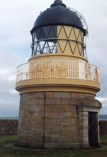 Graemsay Hoy Low